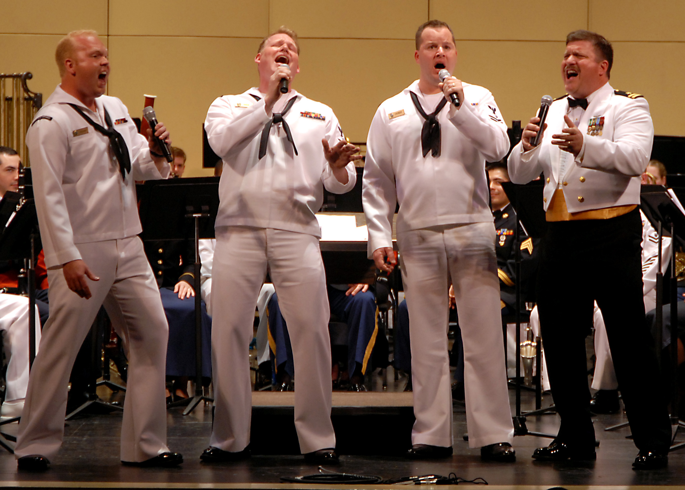 OLYMPIA, Wash. (June 15, 2008) Navy Band Northwest's Barbershop Quartet, featuring Musician 3rd Class Drew Williams, left, Musician 1st Class James Raacsh, Musician 2nd Class Eric Cavander and Lt. Chuck Roegiers, win the hearts of the audience with a John Philip Sousa rendition of "Stars and Stripes Forever" during the 17th Annual International Military Band Concert at the Washington State Center for Performing Arts. Navy Band Northwest performed with 56th Army I Corps Band and Band of the 15th Field Regiment, Royal Canadian Artillery for their Father's Day concert. U.S. Navy photo by Mass Communication Specialist 2nd Class Eric J. Rowley (Released)